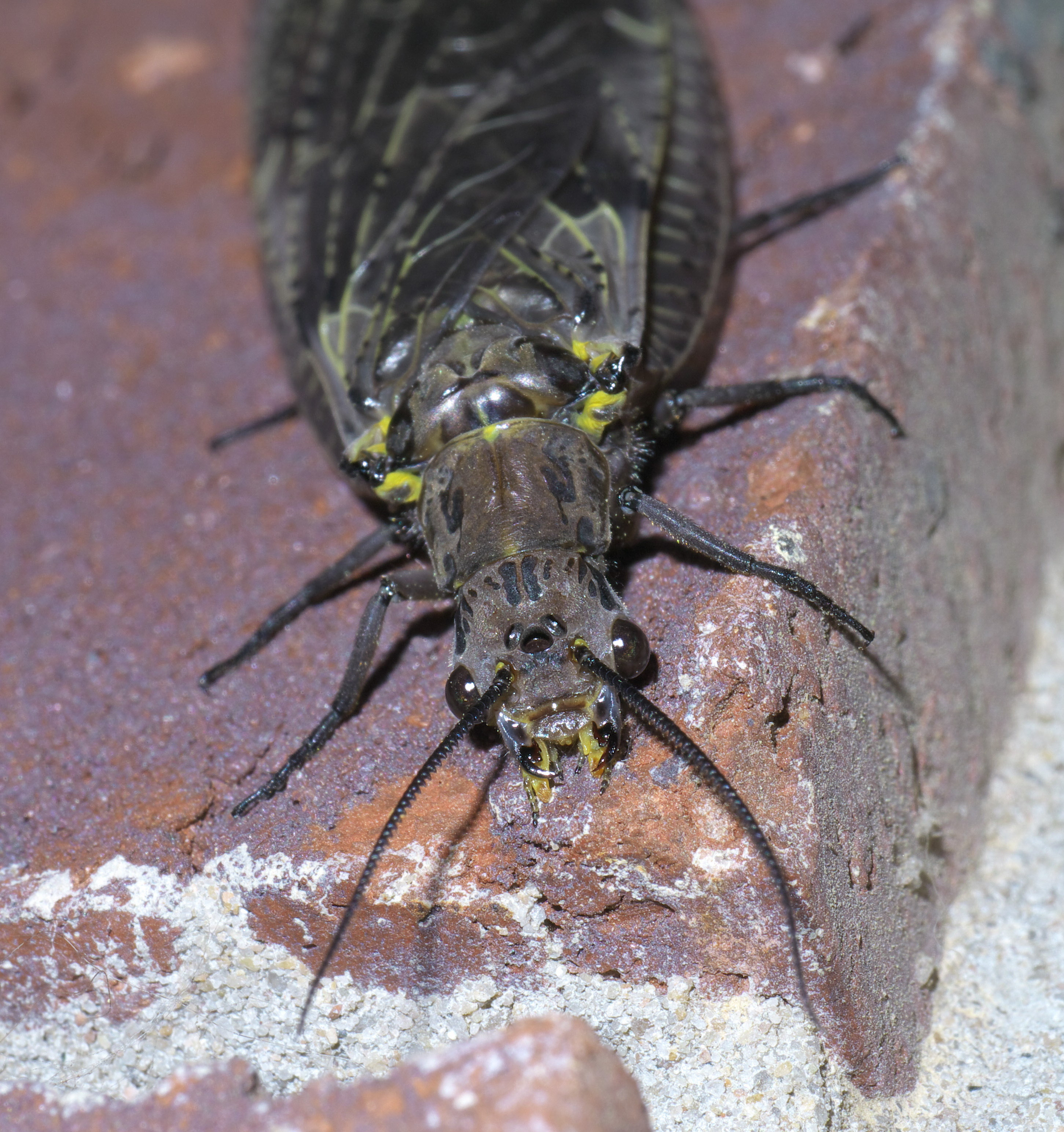 Chauliodes rastricornis, Spring Fishfly, ID Confidence: 95